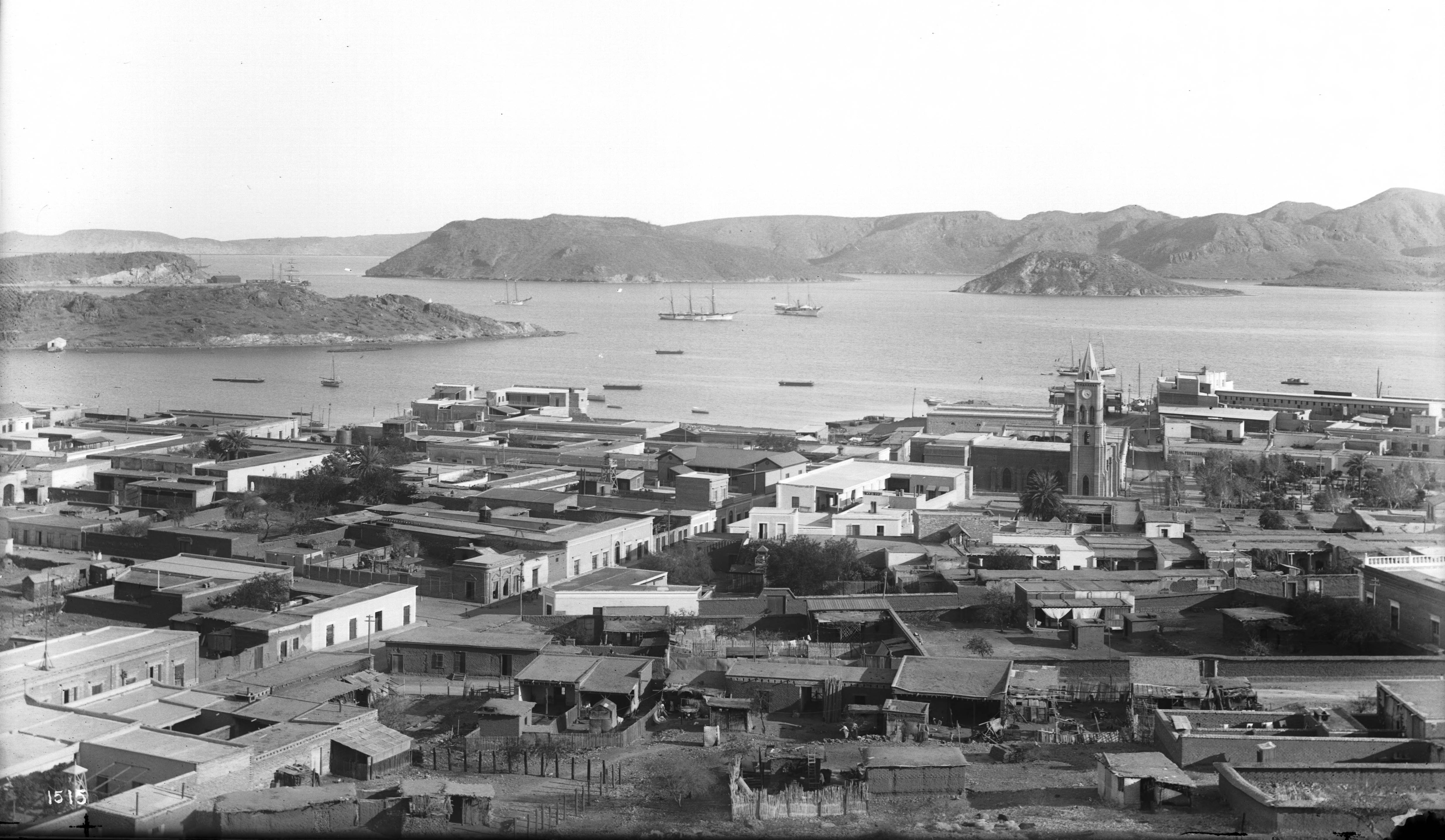 Panorama of the city of Guaymas, Mexico, showing a bay in the background, ca.1905 Photograph of panoramic view of the city of Guaymas, Mexico, showing a bay in the background, ca.1905. The small city view consists principally of square and rectangular block shaped buildings at the edge of the sea. One building has a clock tower. Several sailing ships and other smaller vessels are visible in the water. Across the bay a mountain range is visible. Call number: CHS-1515 Filename: CHS-1515 Coverage date: circa 1905 Part of collection: California Historical Society Collection, 1860-1960 Type: images Part of subcollection: Title Insurance and Trust, and C.C. Pierce Photography Collection, 1860-1960 Repository name: USC Libraries Special Collections Format: glass plate negatives Microfiche number: 1-224- Archival file: chs_Volume92/CHS-1515.tiff Geographic subject (city or populated place): Guaymas Repository address: Doheny Memorial Library, Los Angeles, CA 90089-0189 Subject (adlf): cities Geographic subject (country): Mexico Format (aacr2): 2 photographs : glass photonegative, photoprint, b&w ; 17 x 22 cm. Rights: Digitally reproduced by the USC Digital Library; From the California Historical Society Collection at the University of Southern California Project: USC Accession number: 1515 Repository Contributing entity: California Historical Society Date created: circa 1905 Publisher (of the digital version): University of Southern California. Libraries Format (aat): photographic prints; photographs Legacy record ID: chs-m15067; USC-1-1-1-14137 Access conditions: Send requests to address or e-mail given. Phone (213) 821-2366; fax (213) 740-2343. Subject (file heading): Mexico -- Guaymas Subject (lcsh): Cities and towns